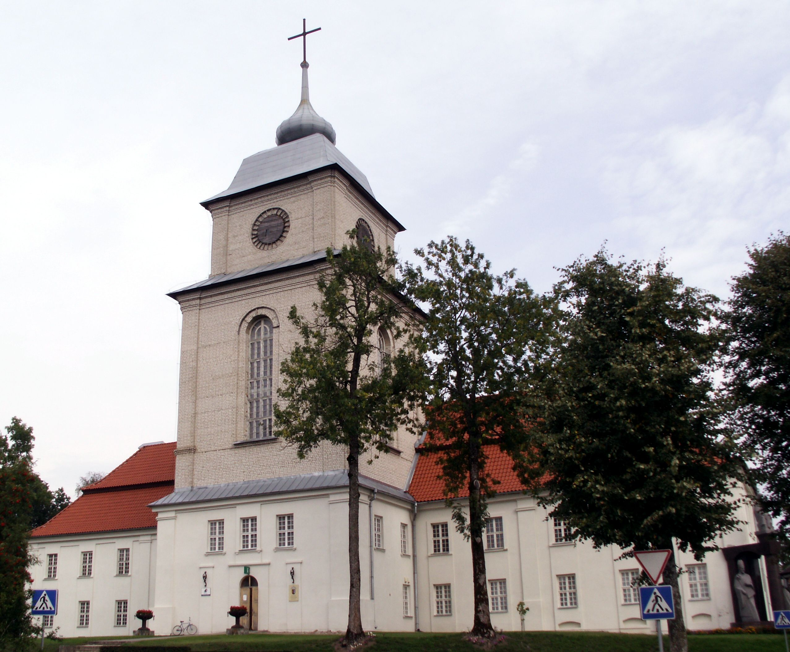 Varniai church museum, Lithuania